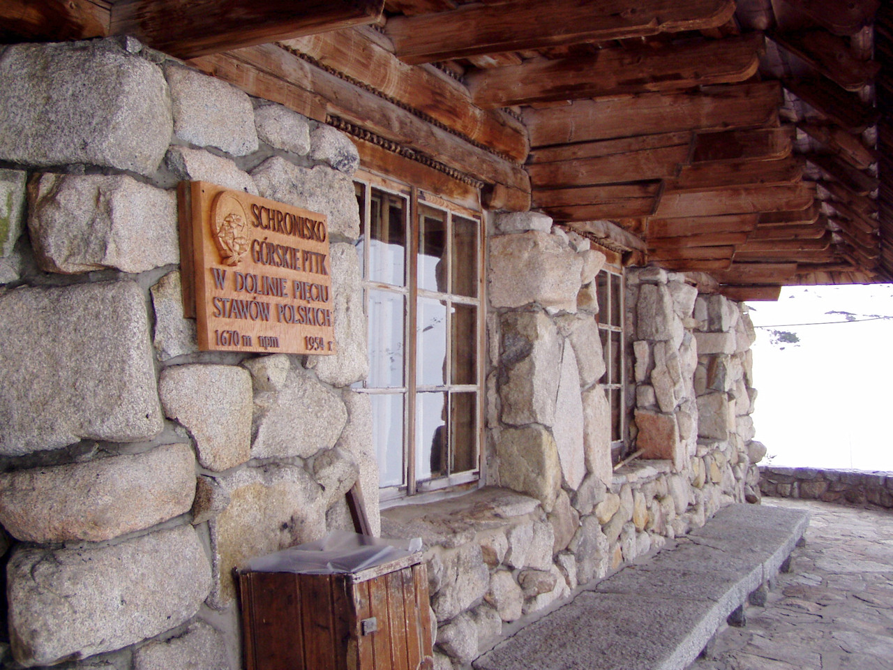 Valley of the Five Polish Lakes mountain hut in Tatra Mountains, Poland.